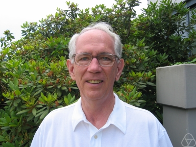 Photo of Charles Sims at the Oberwolfach MFO.